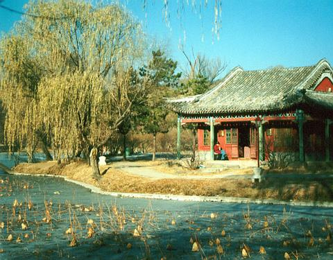 The Chengde Mountain Resort